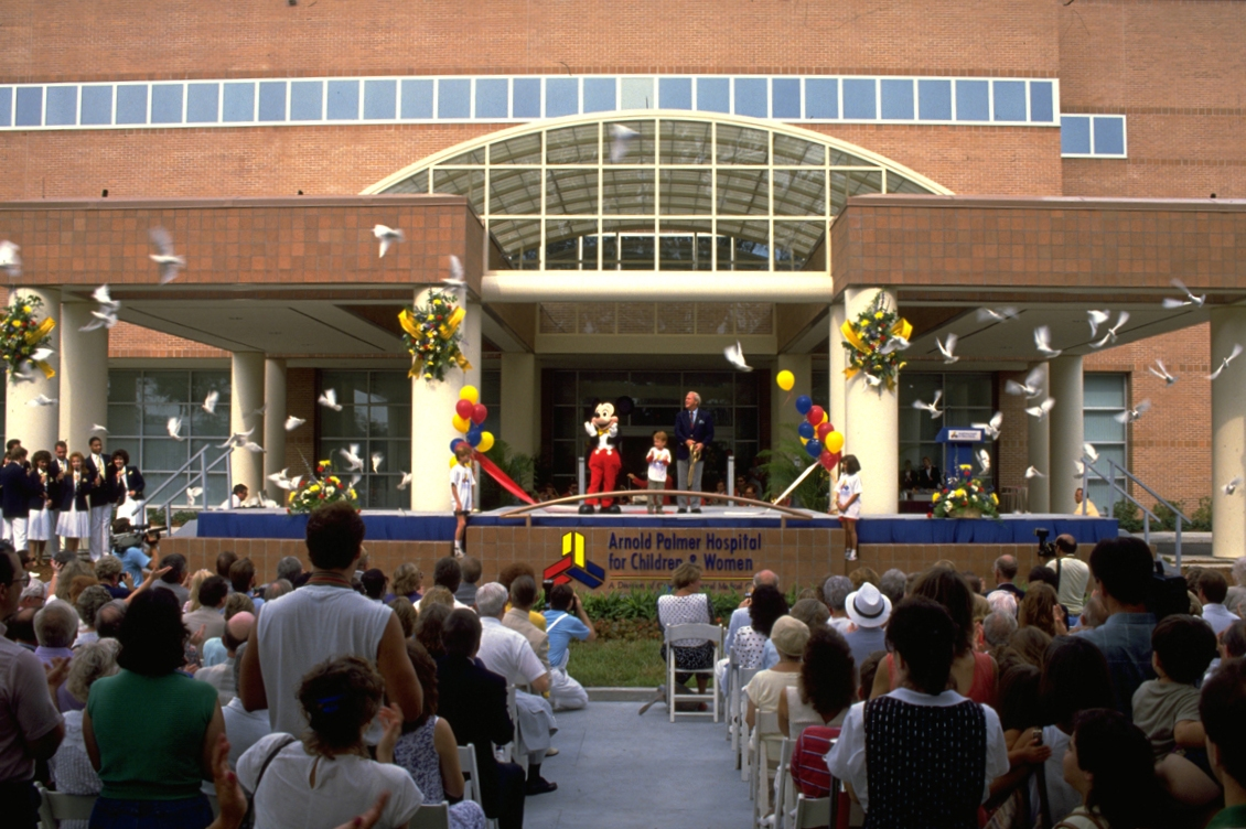 The grand opening ceremony of Arnold Palmer Hospital in 1989.